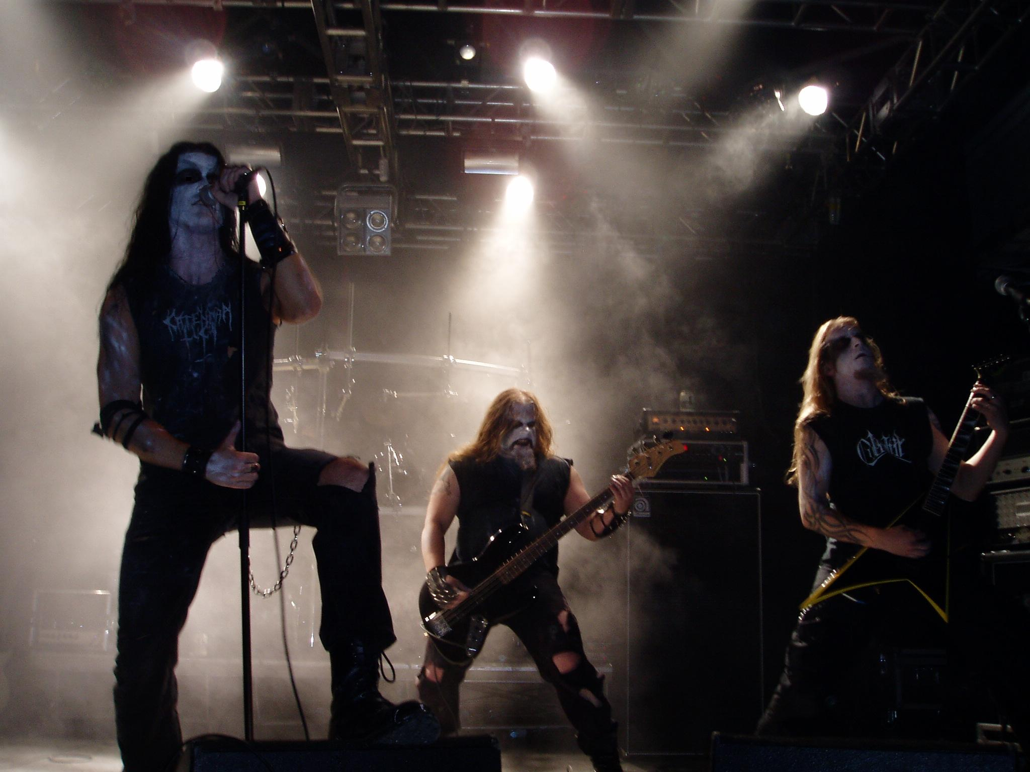 Finnish black metal band Cavus @ Nosturi 20.11.2009. It's not Behexen, though image title says so.